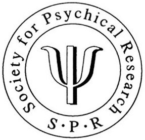 Logo of the Society for Psychical Research, established in 1882.